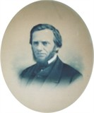 Cornelius S. Hamilton, politician from Ohio, United States.